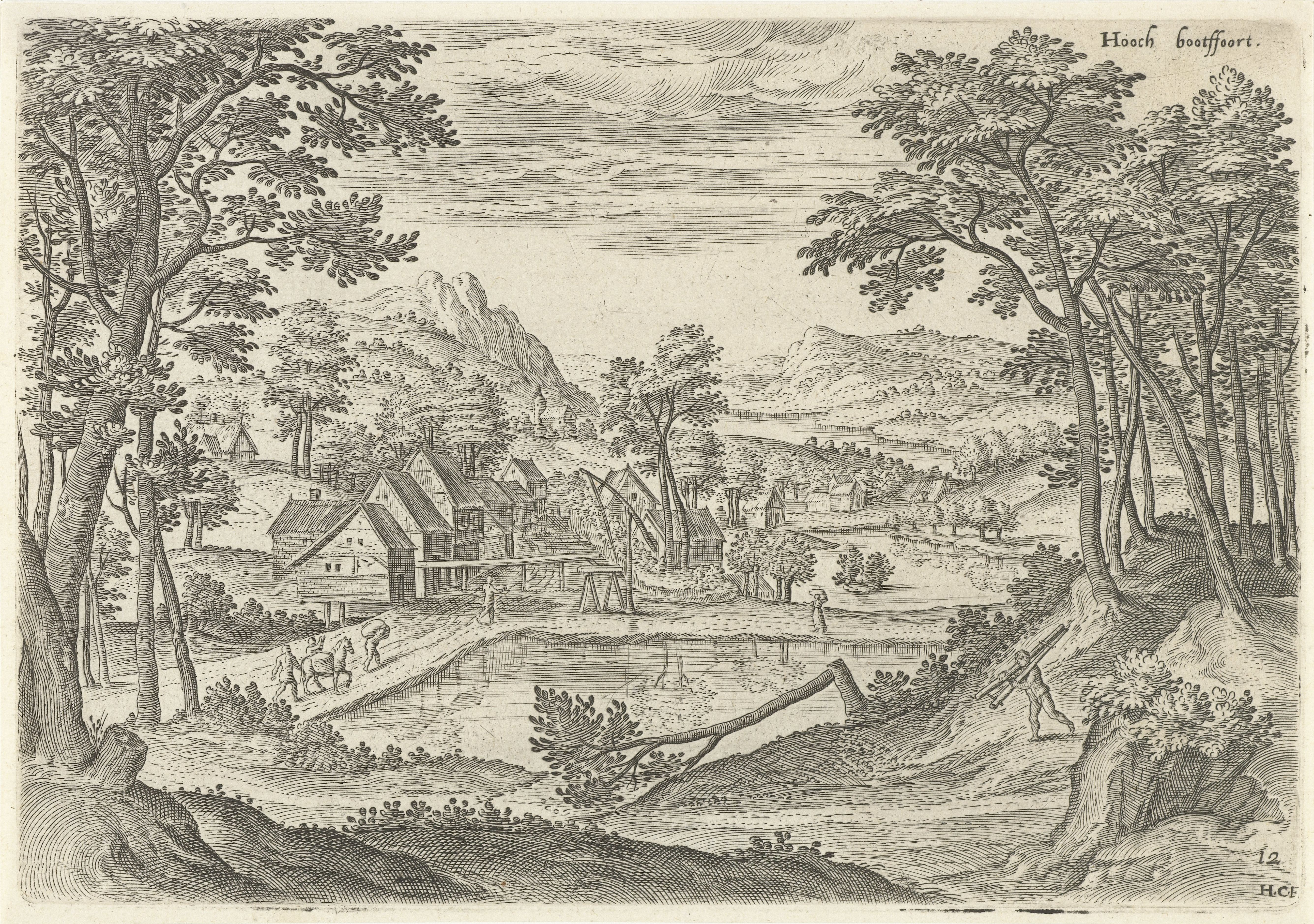 Etching by Hans Collaert (I) after Hans Bol-Jacob Grimmer, from a series of 24 views of Brussels and surroundings, published by Claes Jansz. Visscher (II) in the 16th century.